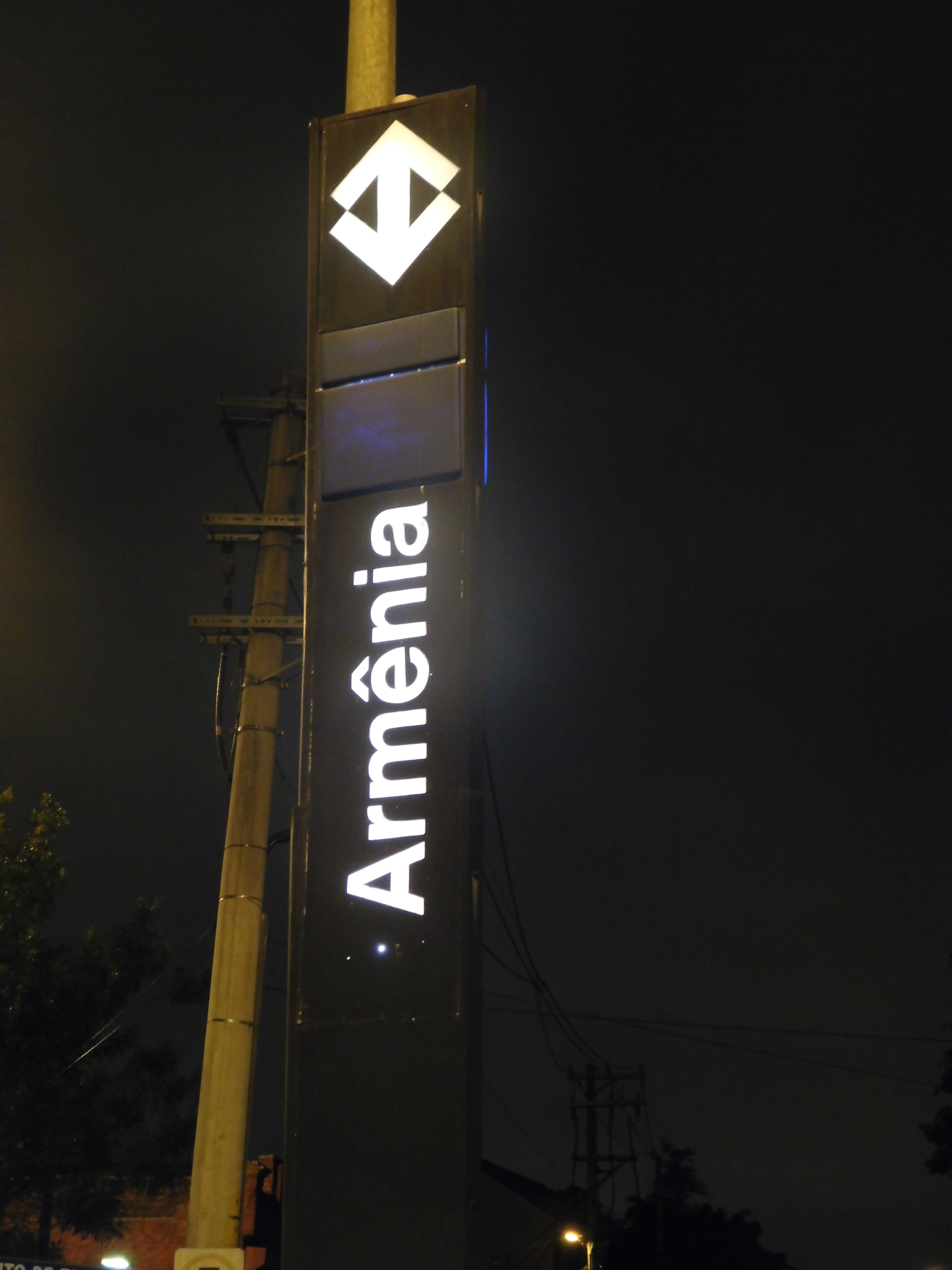 Armênia (São Paulo Metro) station.